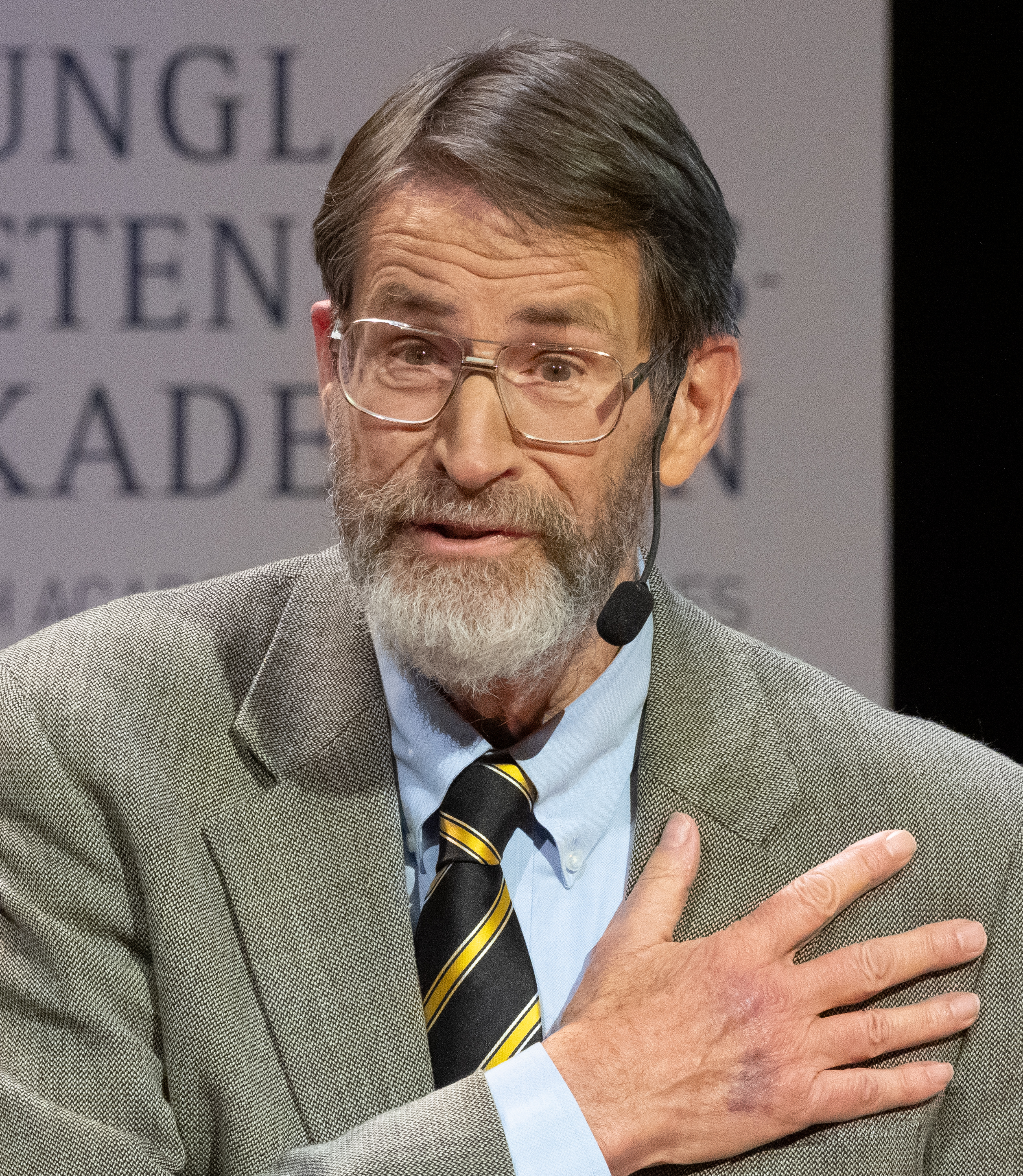 Nobel Laureates in Chemistry 2018, Stockholm, Sweden, December 2018